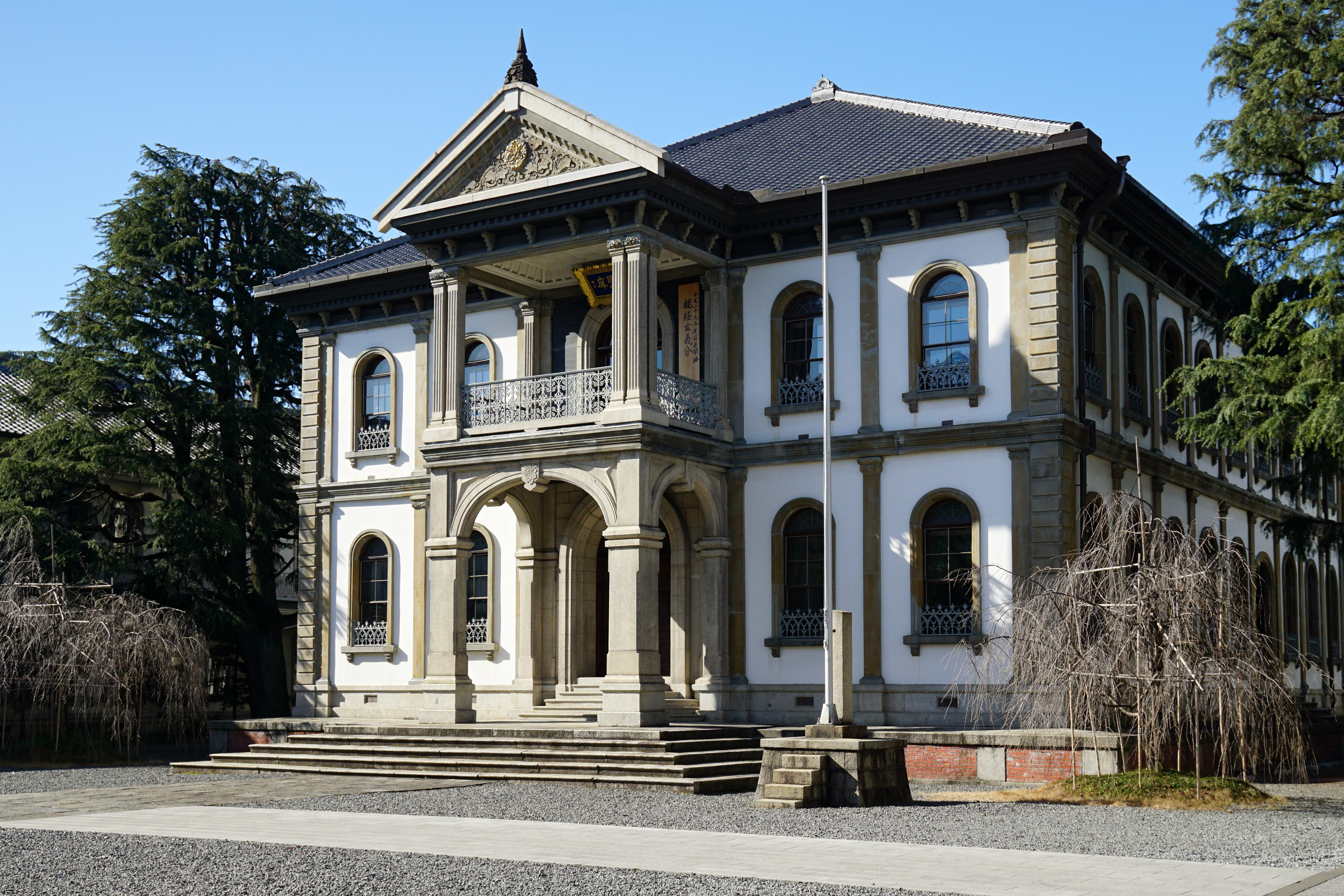 Ryukoku University Omiya Campus in Kyoto, Kyoto prefecture, Japan